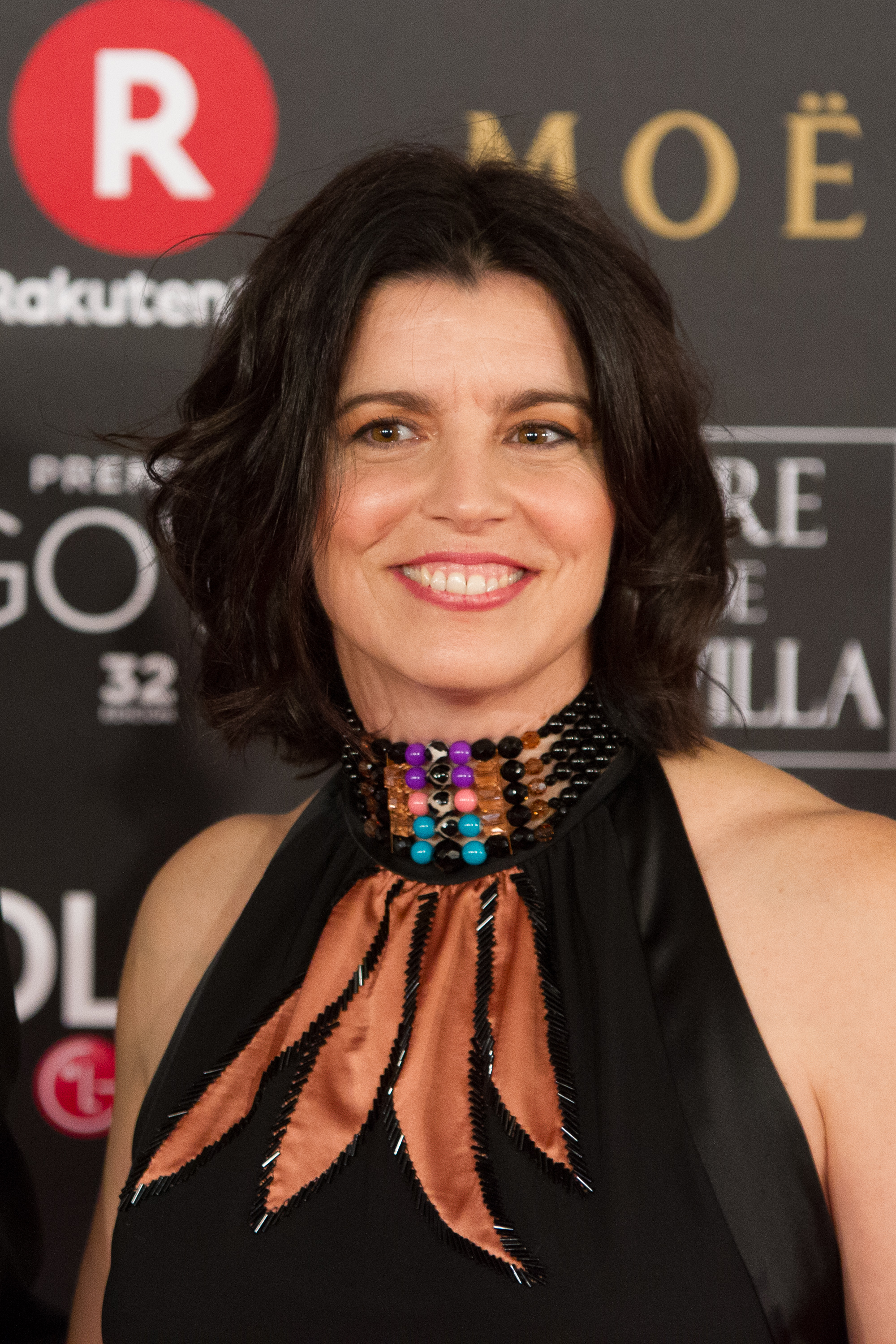 32nd Goya Awards, 2018.